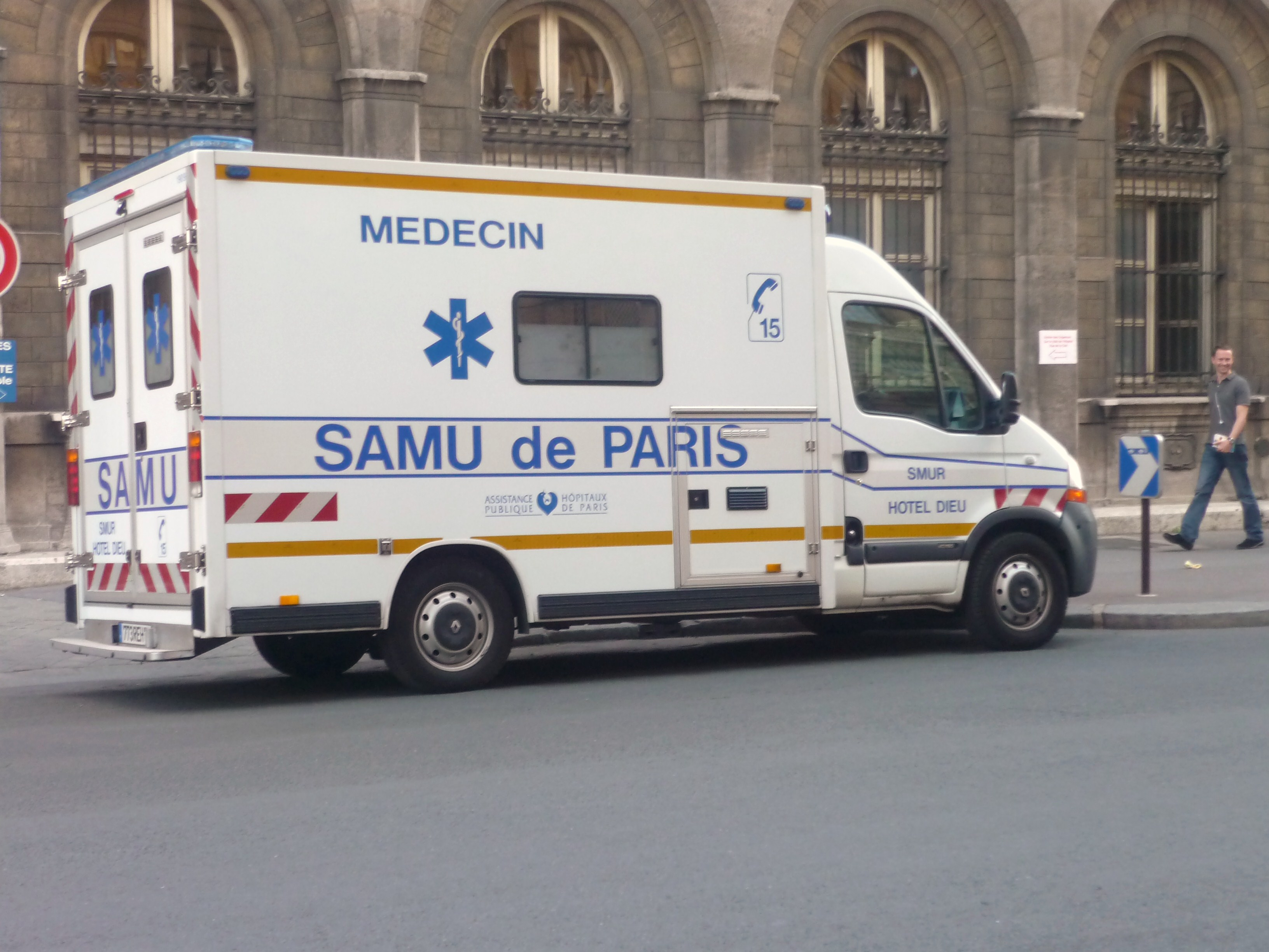 Ambulance in Paris, France